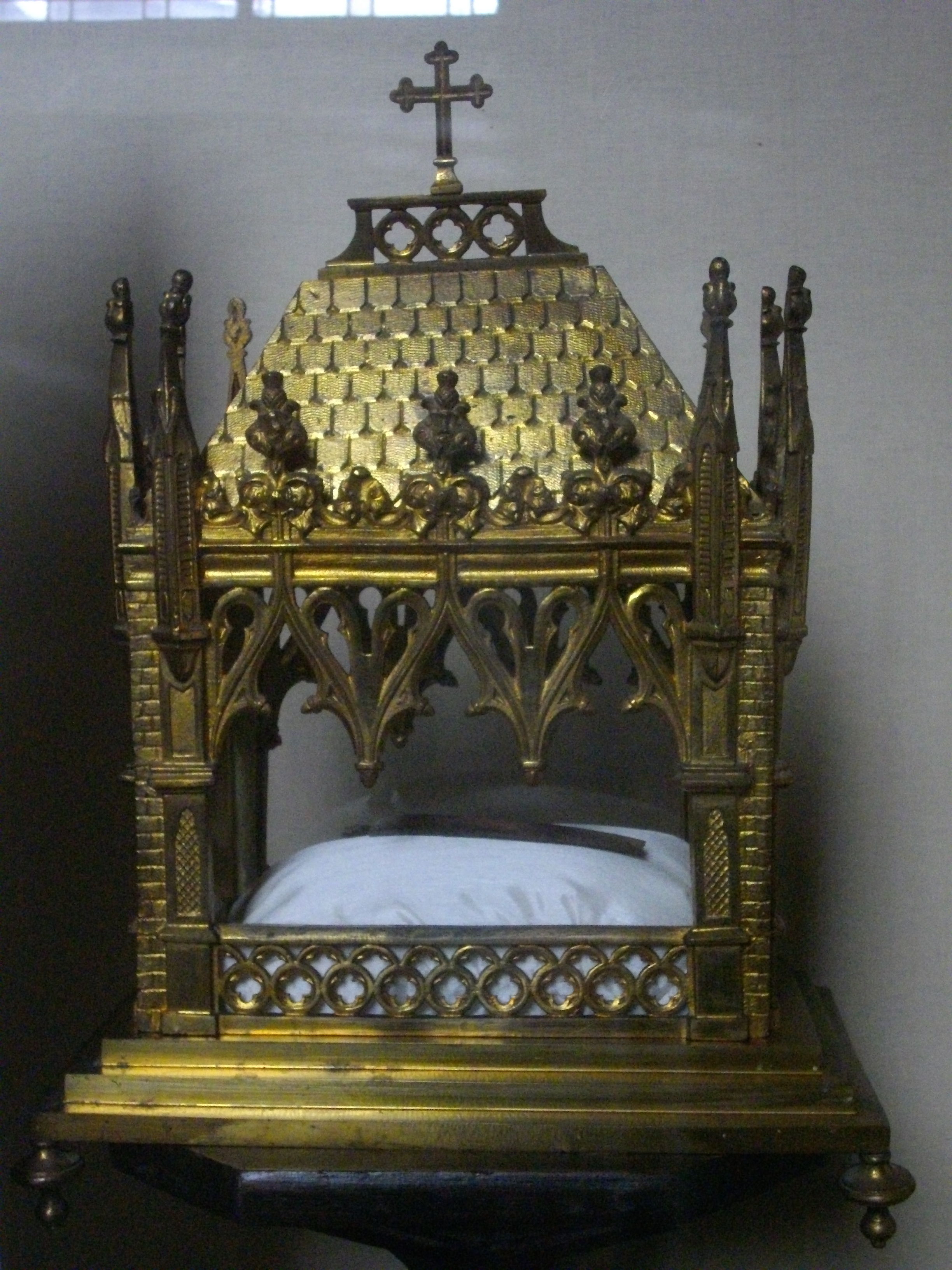 Saint Peter cathedral of Vannes (Morbihan, France) : reliquary for Saint Vincent Ferrer